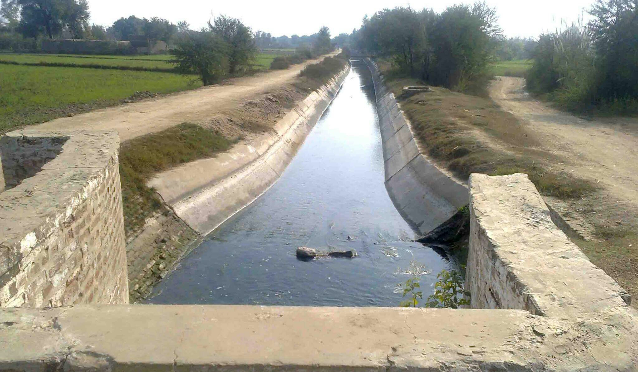 I also Uploaded this Photo on Botala Facebook Page & on website